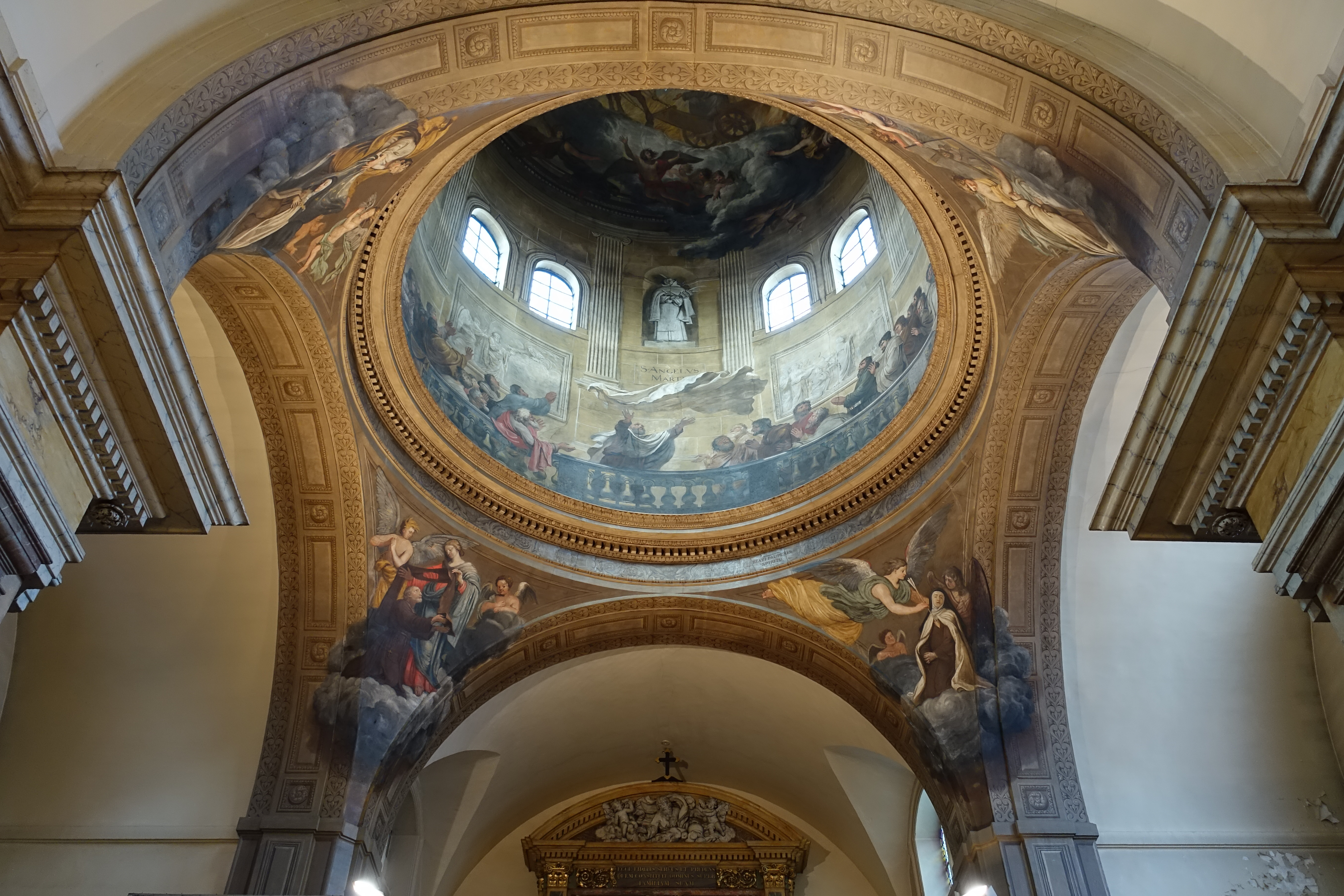 The Church of Saint-Joseph-des-Carmes, a Roman Catholic church situated at 70 rue de Vaugirard in the 6th arrondissement of Paris in the heart of the Séminaire des Carmes.